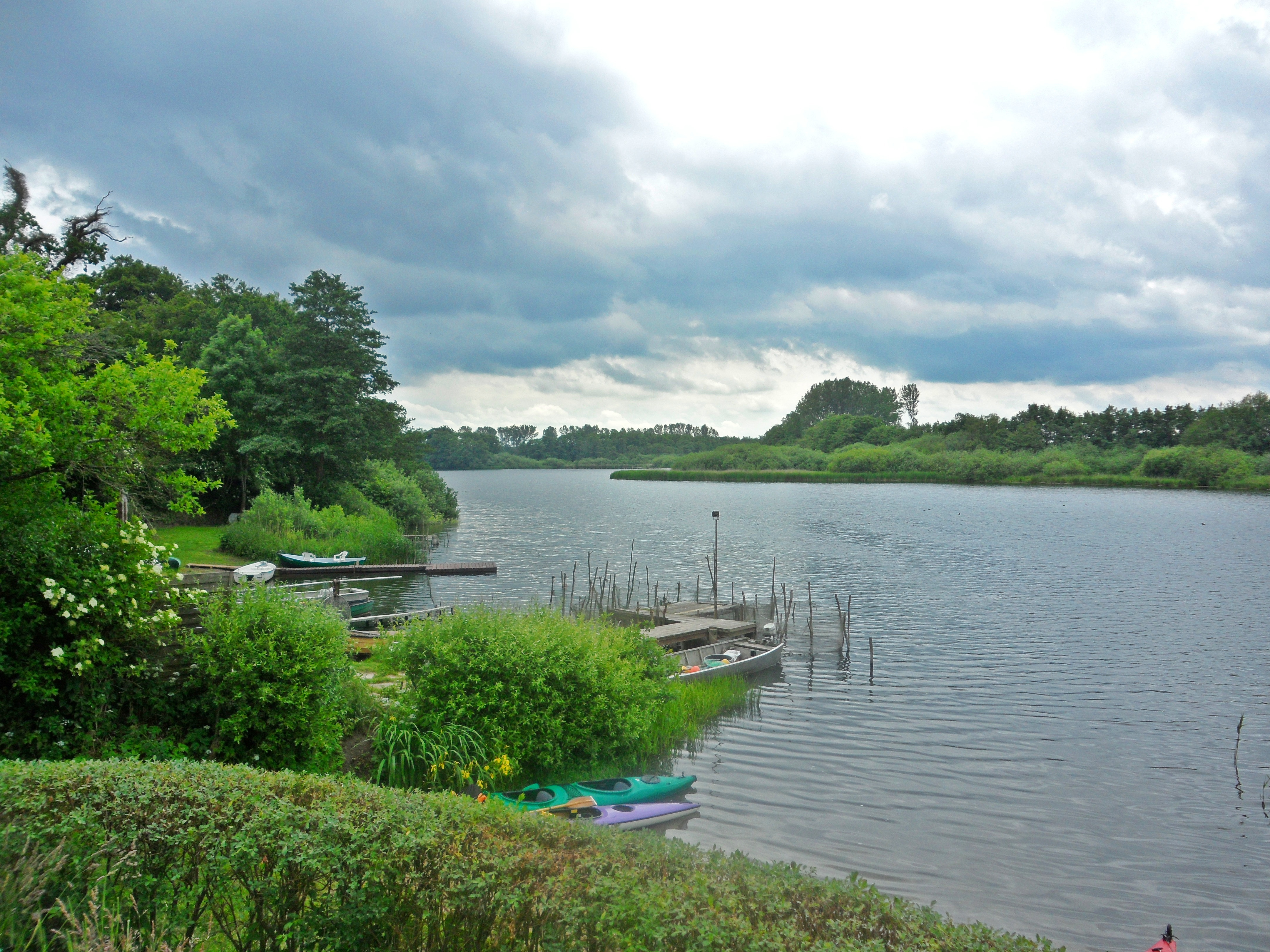 The Fuhlensee near Wahlstorf, view to the south